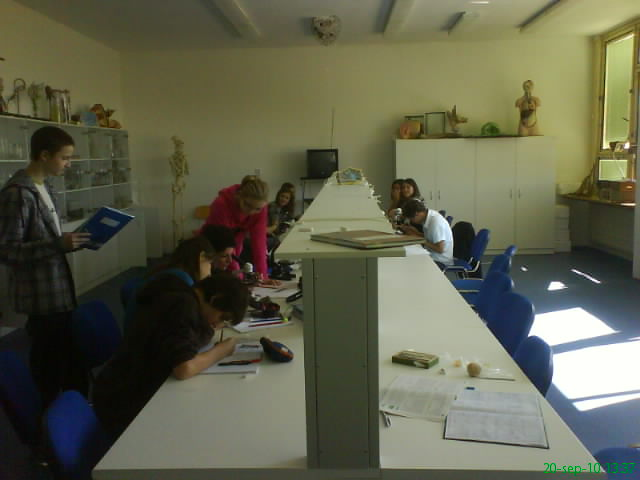 Biological laboratory